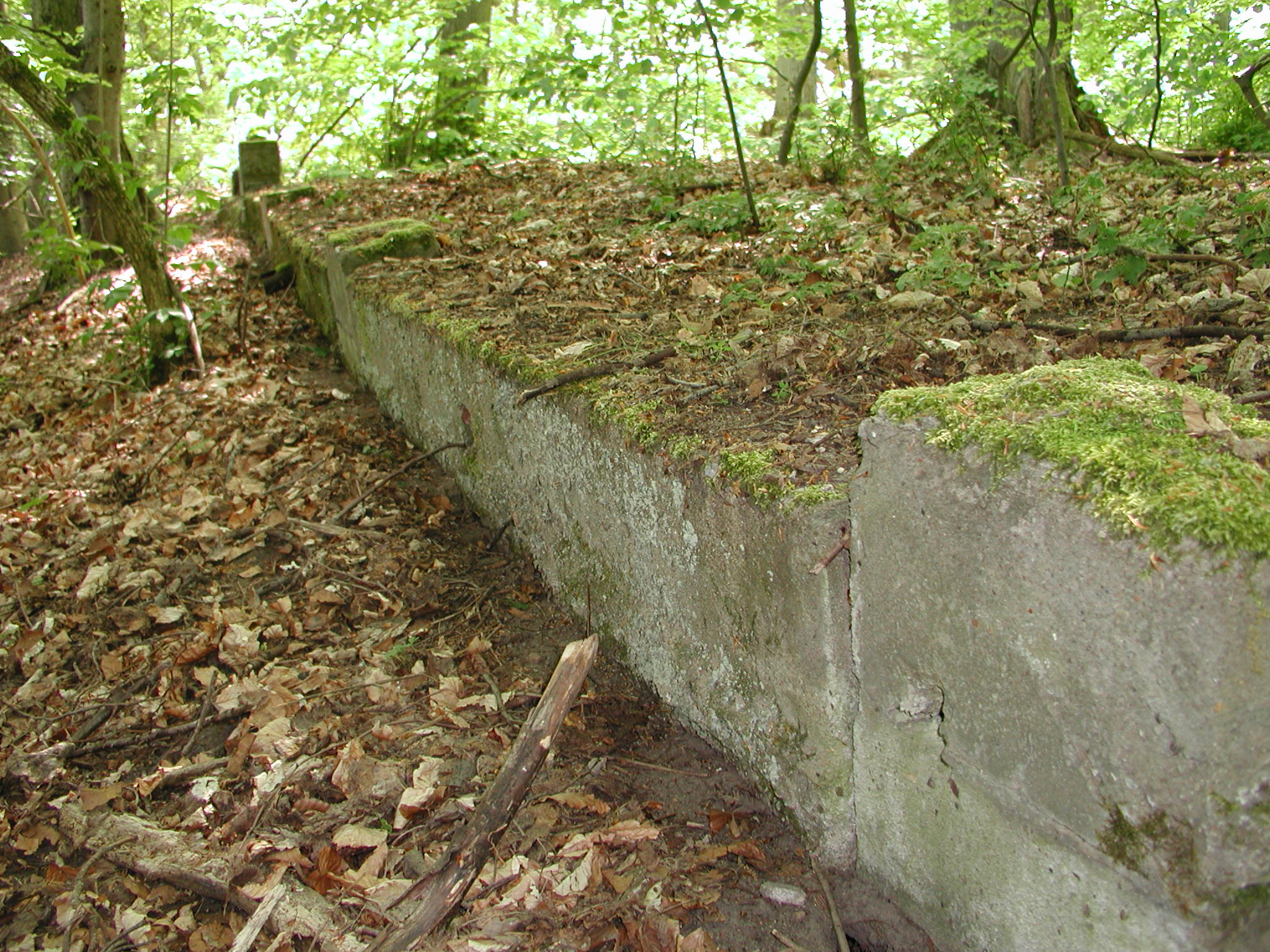 Substructure of the Liepnitzsee Inn in Wandlitz, Brandenburg, Germany.